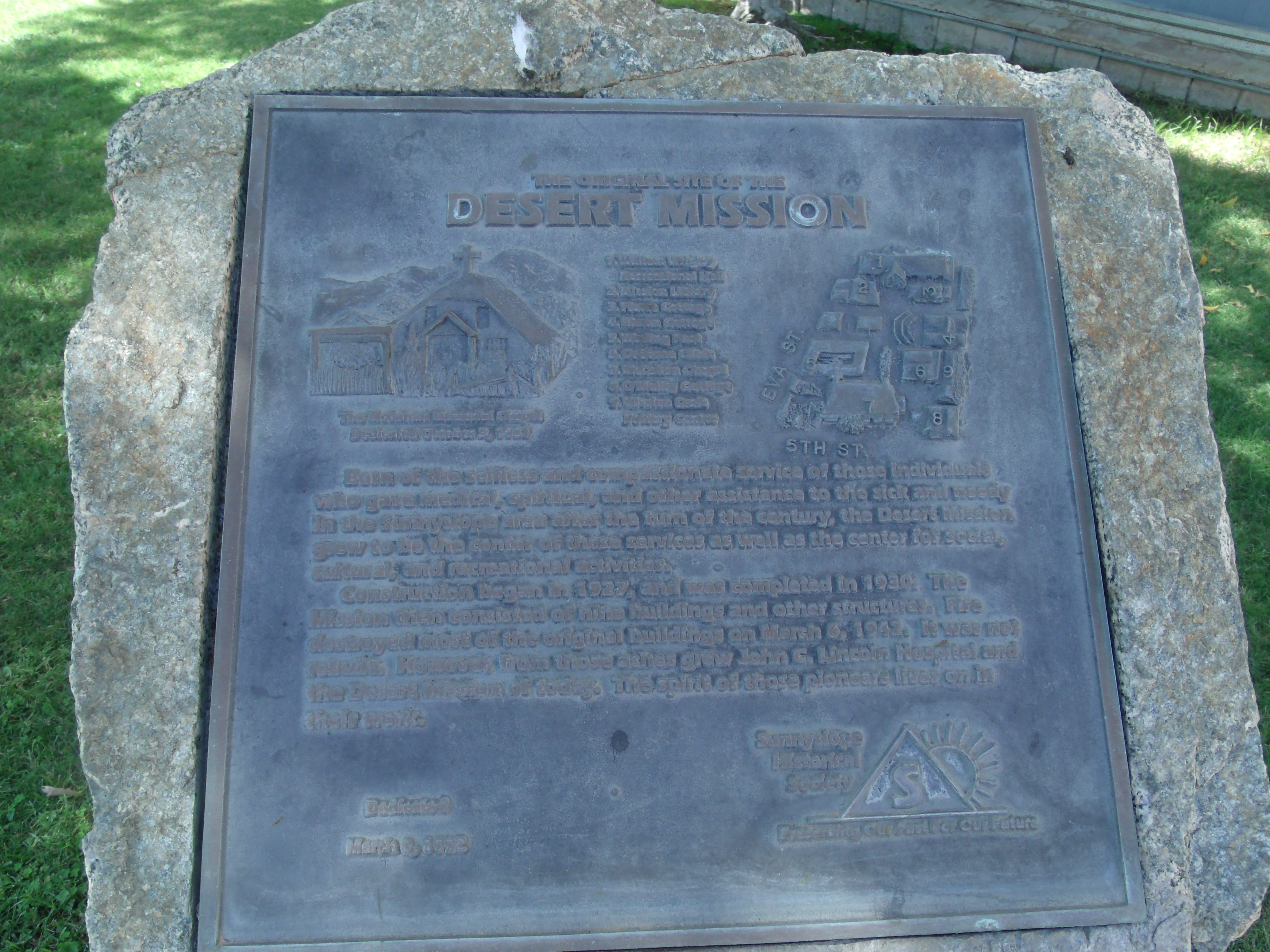 This Marker was placed on the site where the historic Desert Mission of Sunnyslope was founded in 1927. It is located on 5th Street and Eva Road, Sunnyslope, Phoenix, Az. Plaque